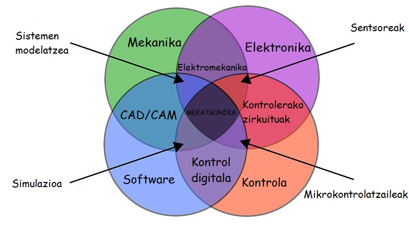 Scheme of mechatronic